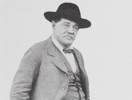 Pima County, Arizona Territory Sheriff Robert H. Paul served most of his life in law enforcement. He was well regarded for his work and success at bringing outlaws to justice. He was also a friend of the Earp family and notably failed to extradite Wyatt Earp from Colorado.